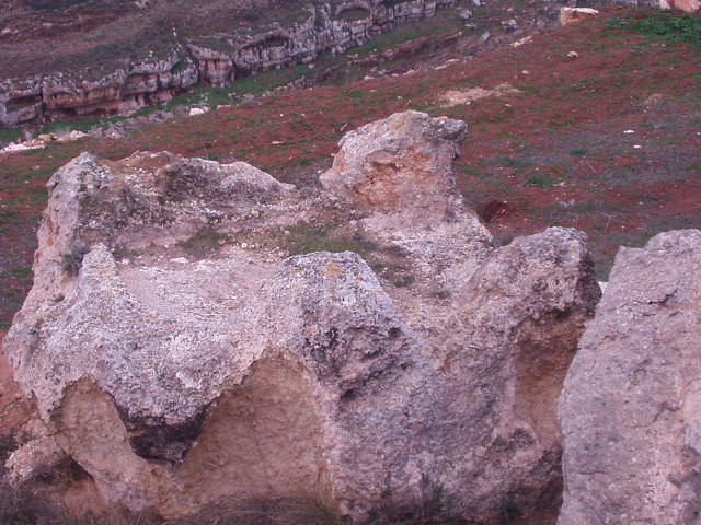 A_Rock-Hewn_Altar_Near_Shiloh1